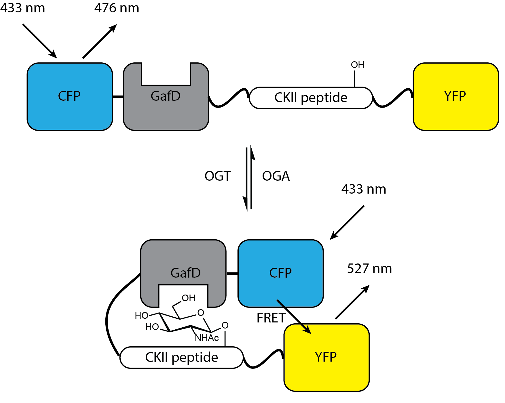 Schematic of FRET biosensor for O-GlcNAc